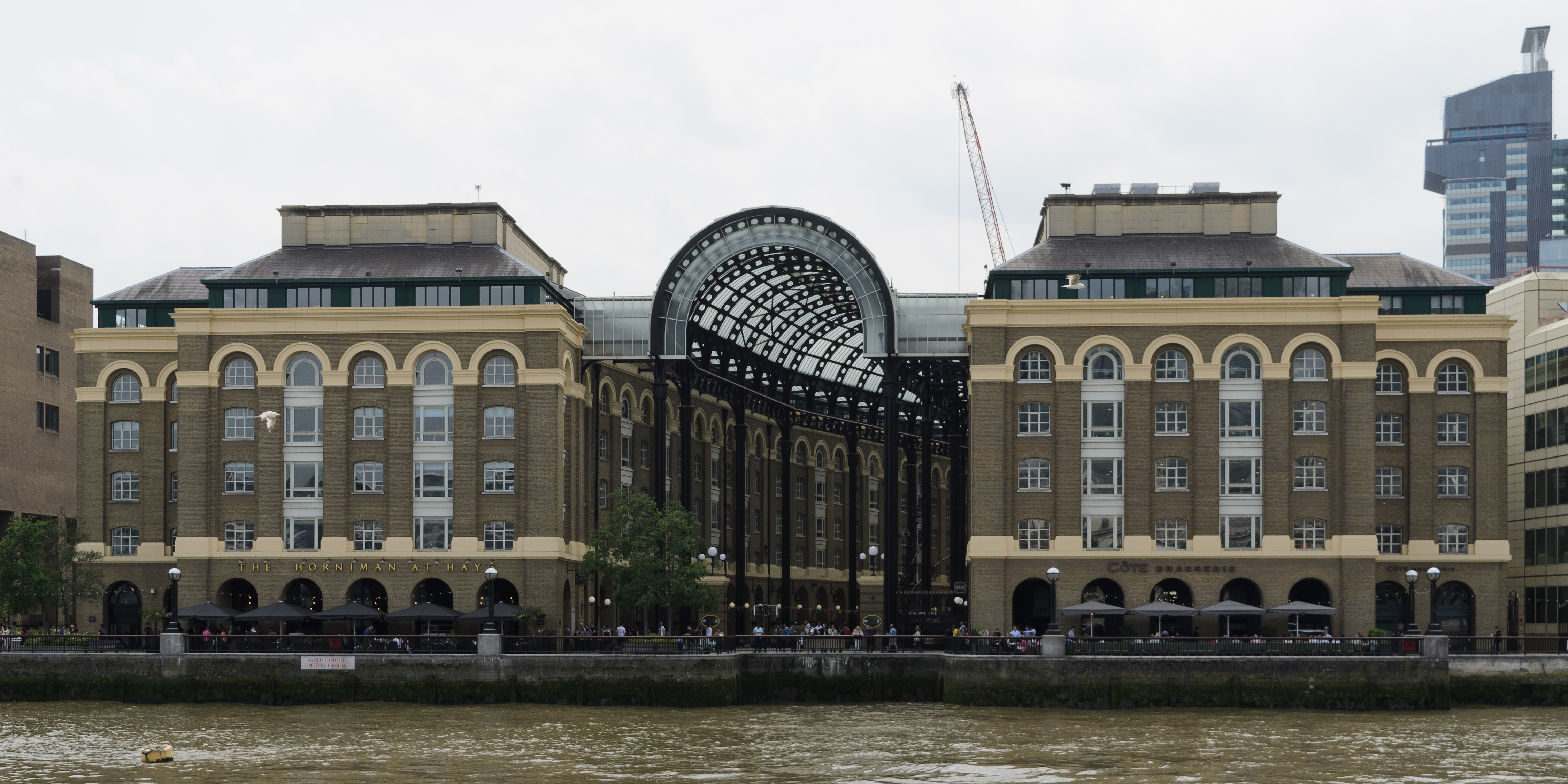 Hay's Galleria, as seen from the Thames, London.